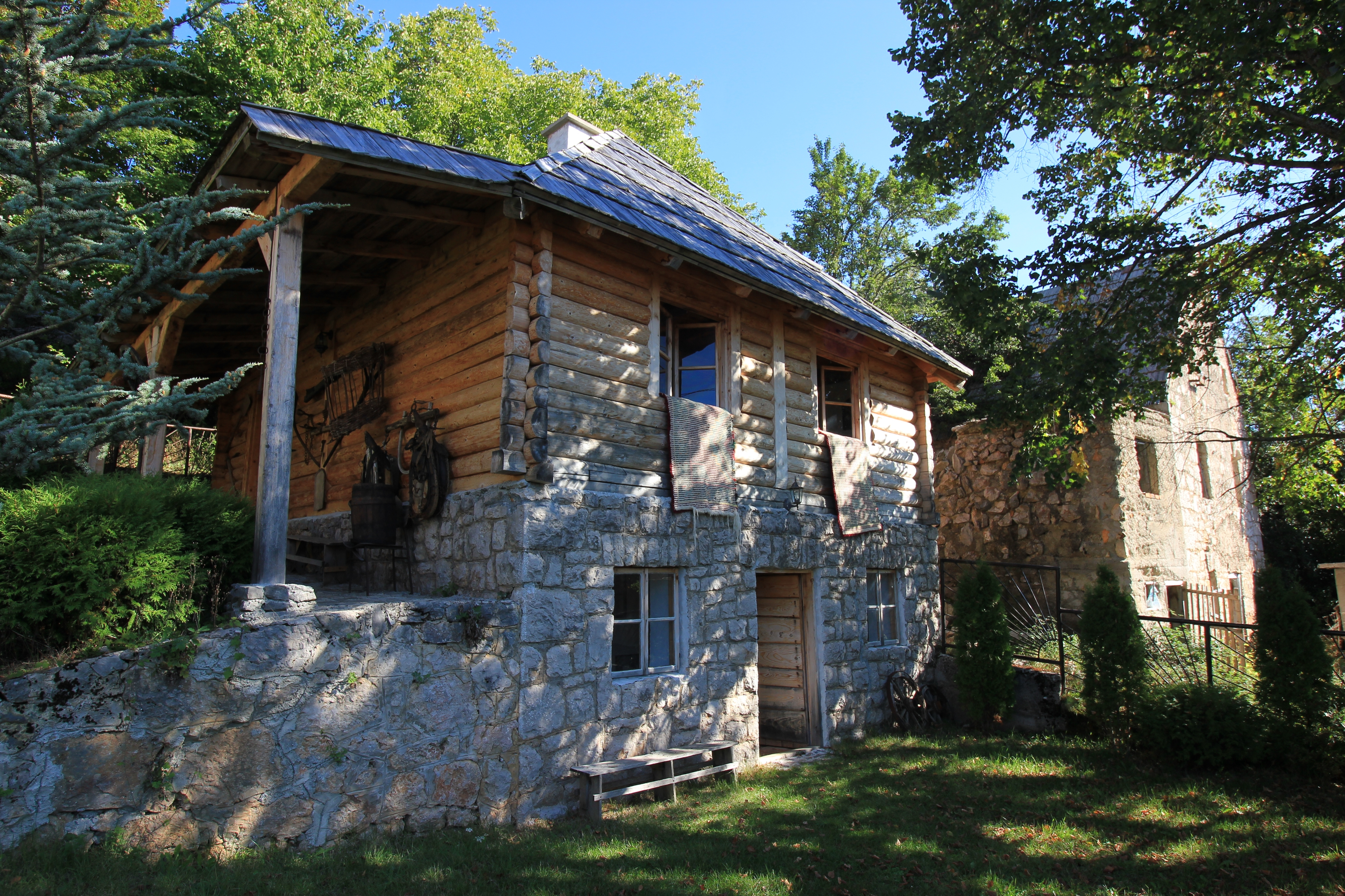 Birthplace of Gavrilo Princip in Obljaj, Bosnia.